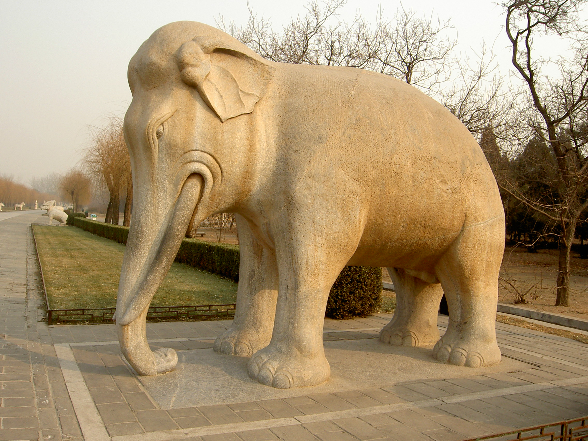 author : ofol date 29-12-2005 voie des âmes, Changping, région de pékin "ways of souls" tombs of the Emperors of the Ming Dynasty (AD 1368 to 1644). 50km north west of Beijing, in Changping. beijing region, ming graves, way of souls